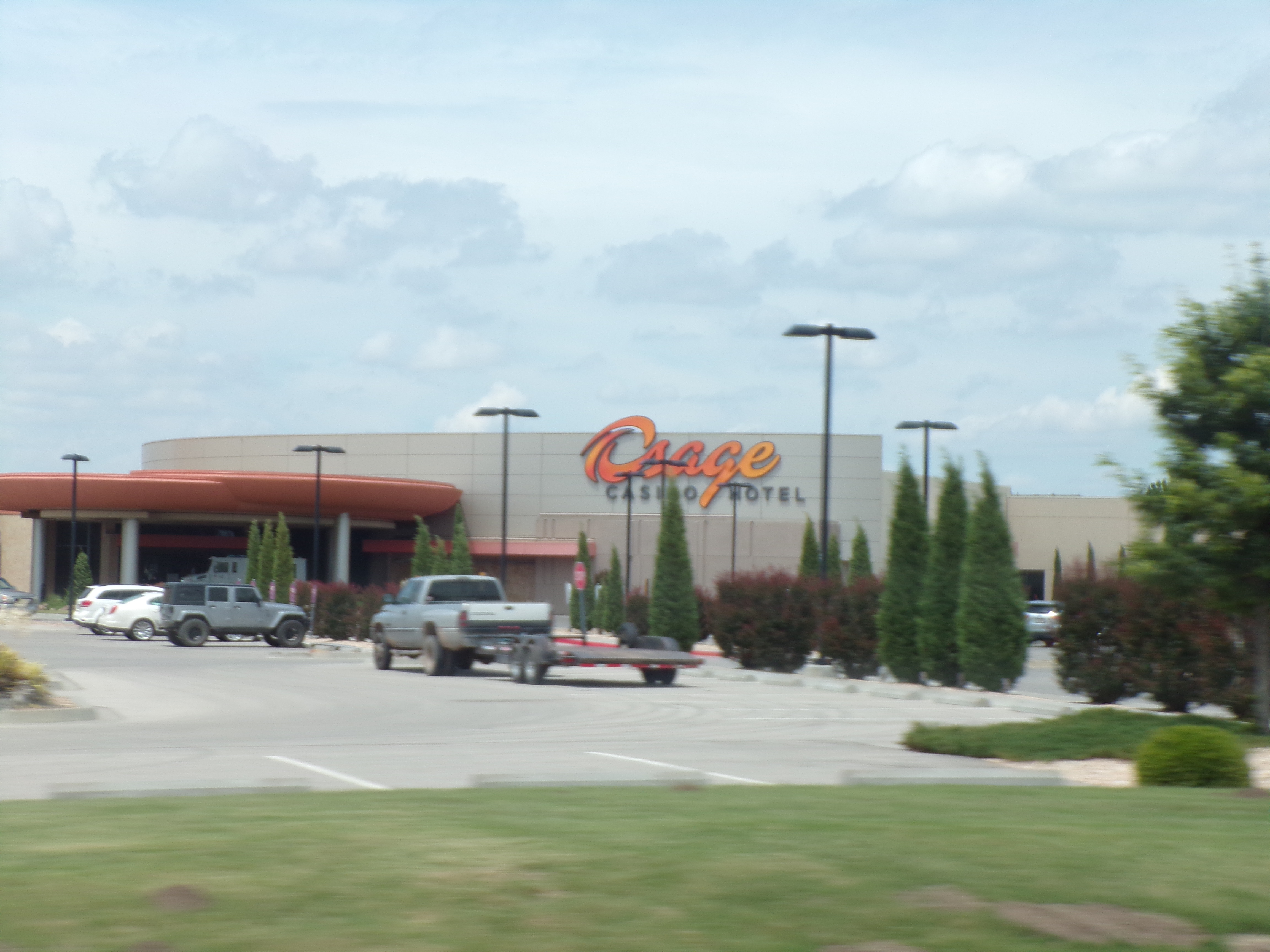 I took this picture in Ponca City, Oklahoma.